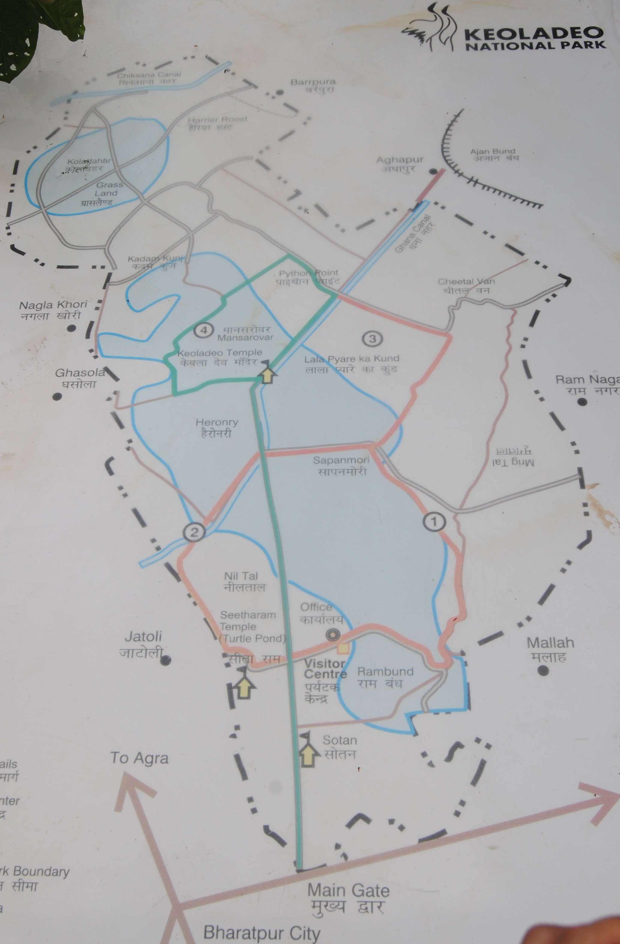 picture taken with own camera in park inside, walking map